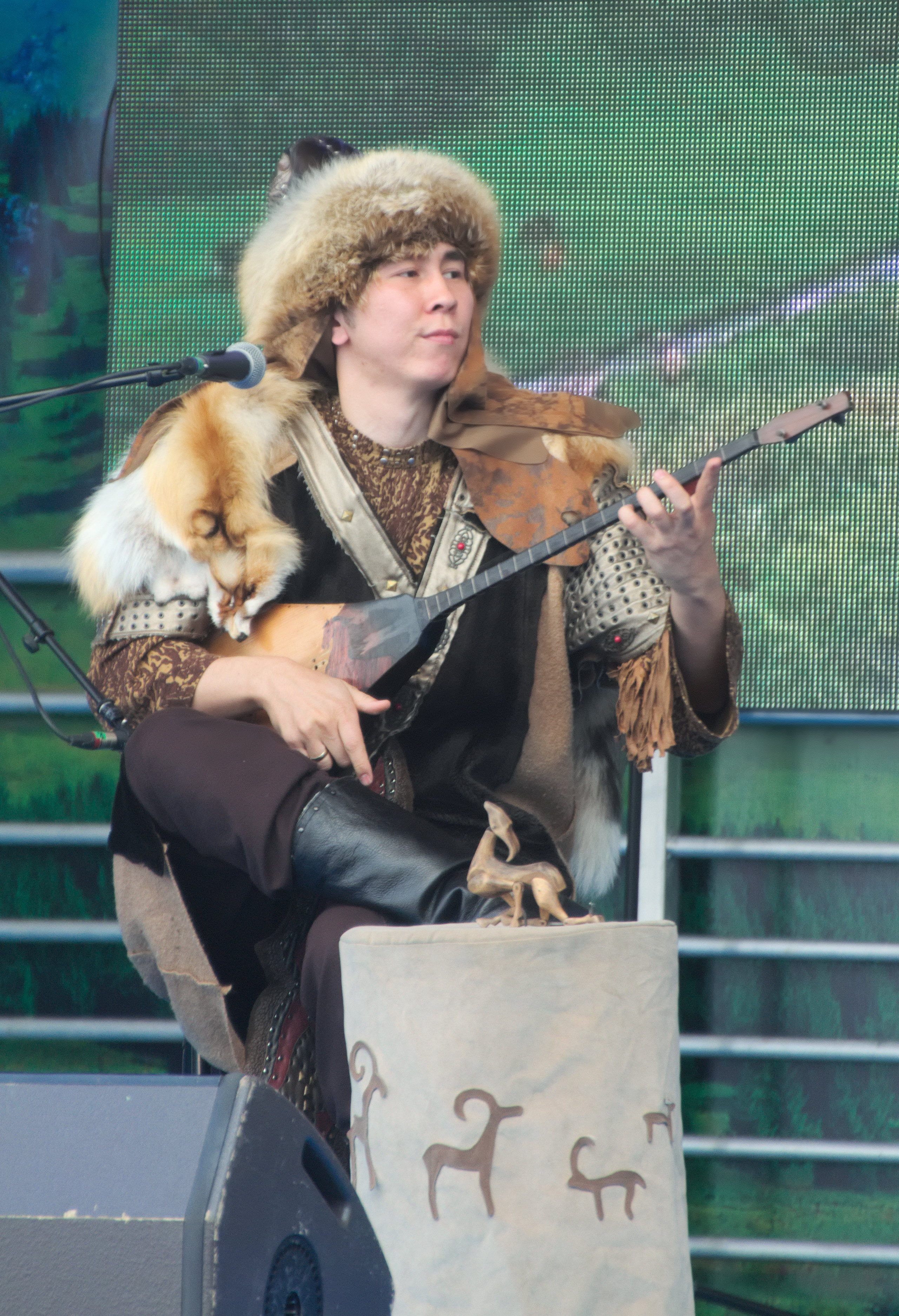 Bauirzhan Bekmukhanbetov, Turan Ensemble dombra player.